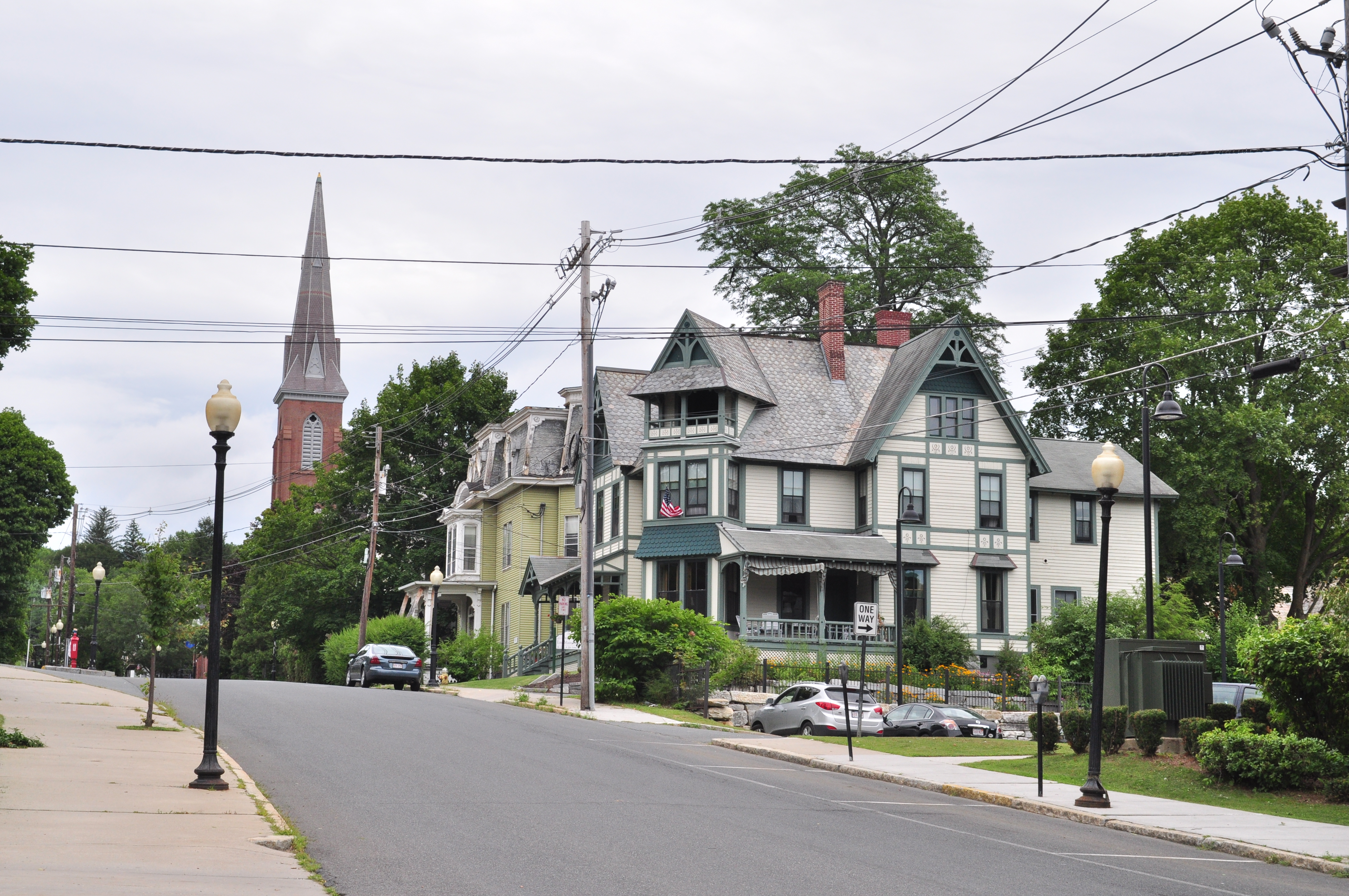 Inn on East Main Street, 182 East Main St., North Adams, Massachusetts. Spire in background is Notre Dame Church.